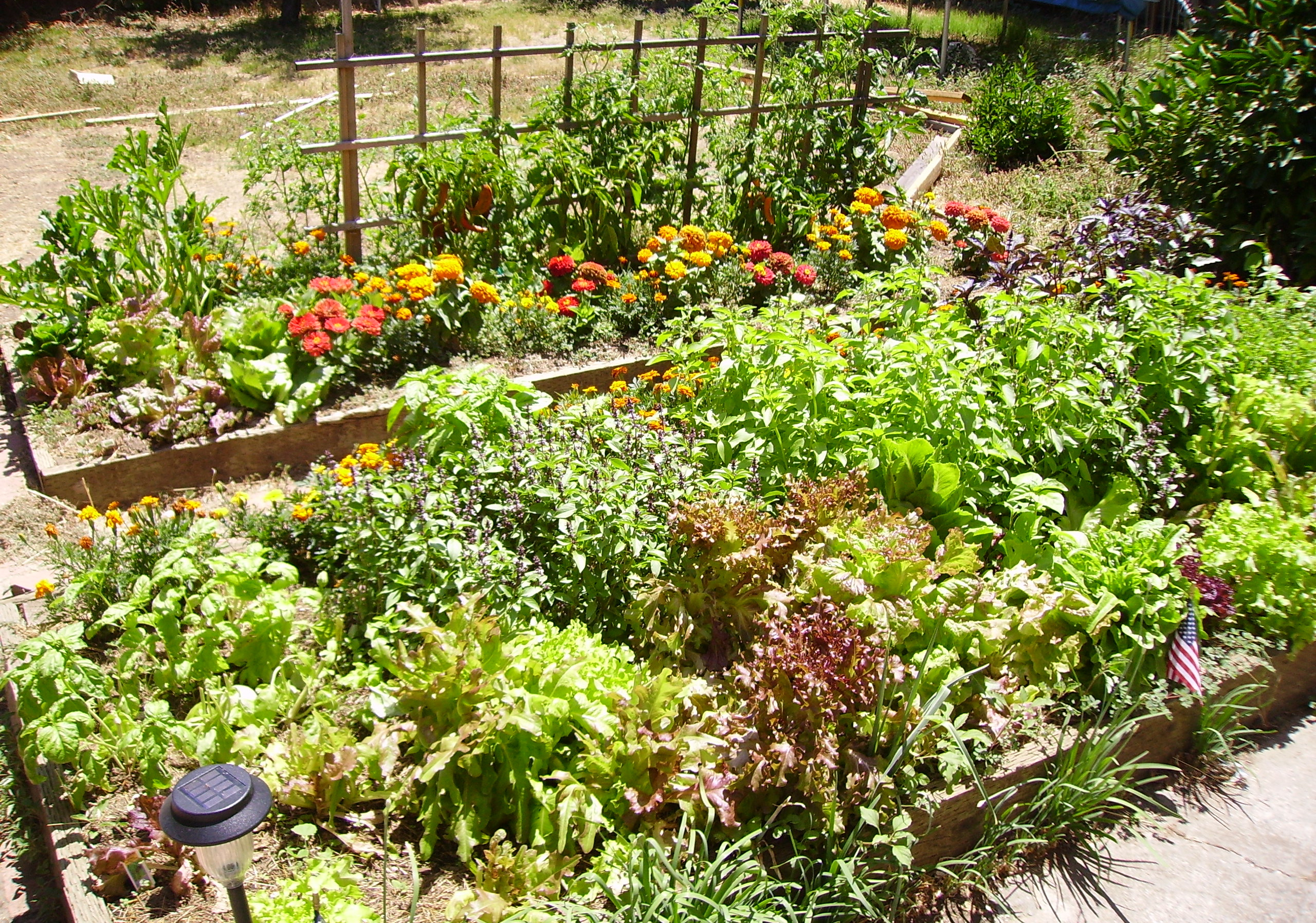 Raised bed of lettuce, tomatoes, 6 different types of basil, marigolds, zinnias, garlic chives, zucchini. An American flag and a solar-powered light are also in the garden.